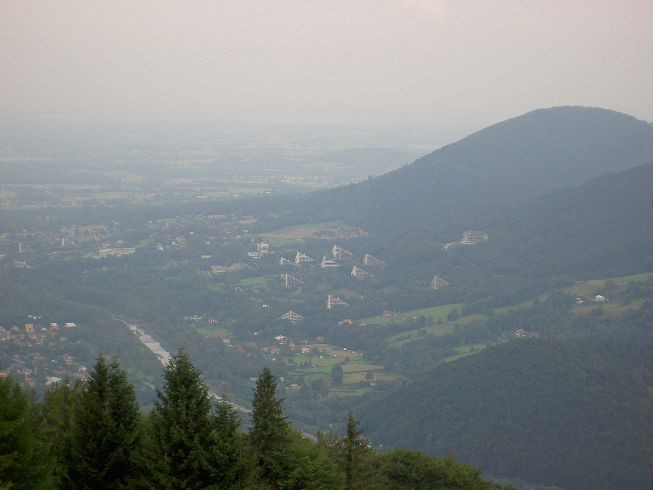 View on Ustroń (Zawodzie district) from the Czantoria mountain.